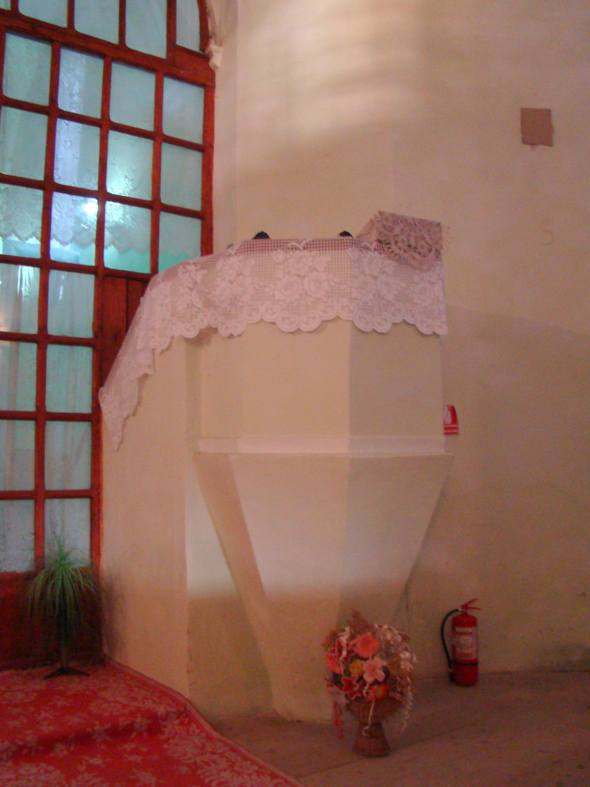 Lutheran church in Monariu, Bistrița-Năsăud county, Romania